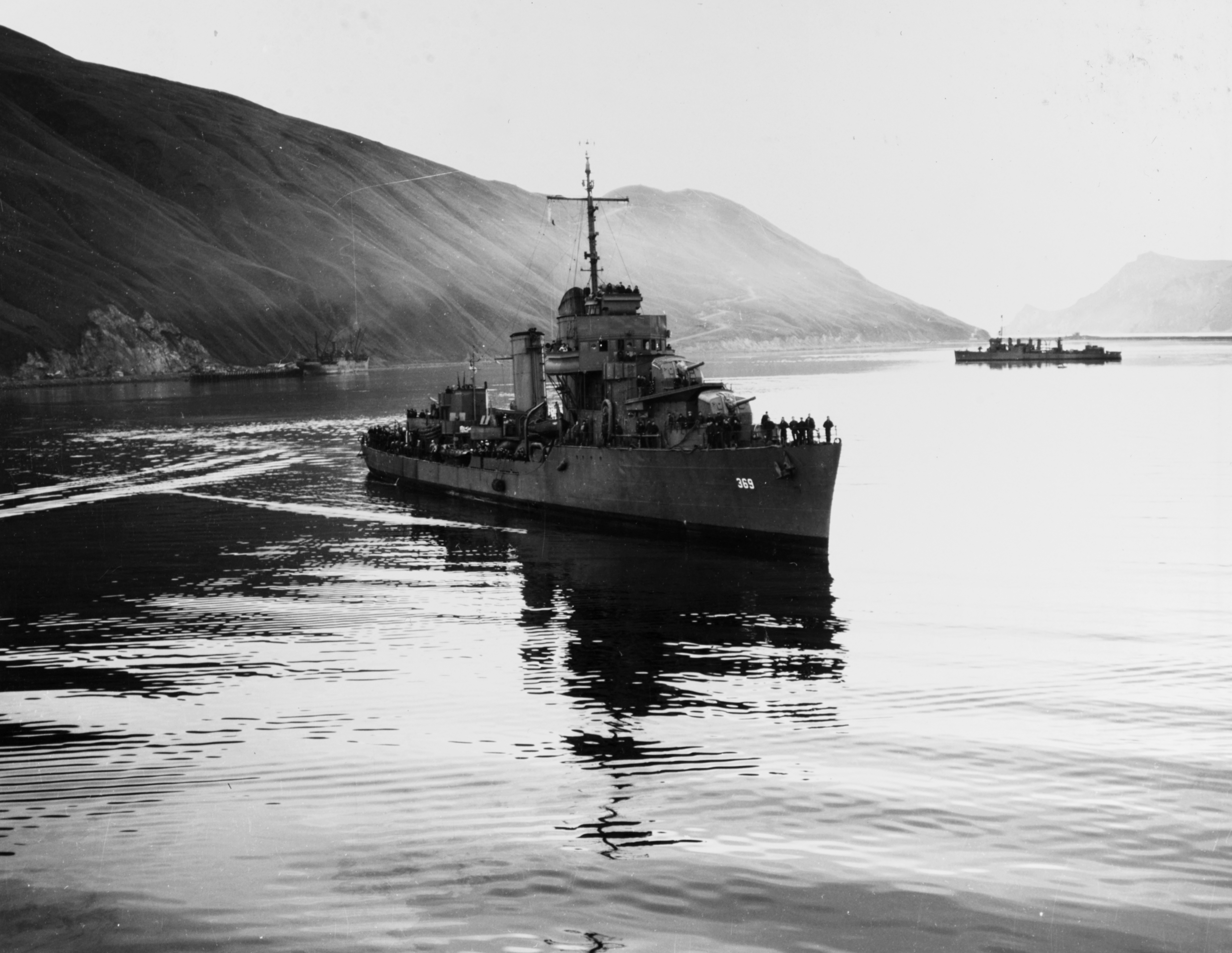 The U.S. Navy destroyer USS Reid (DD-369) at Dutch Harbor, Alaska, on 6 September 1942, with Japanese prisoners of war (POWs) on board, survivors from the Japanese submarine RO-61, sunk on 31 August 1942 by Reid and planes from Patrol Squadron 43 (VP-43). The destroyer in background may be USS King (DD-242).